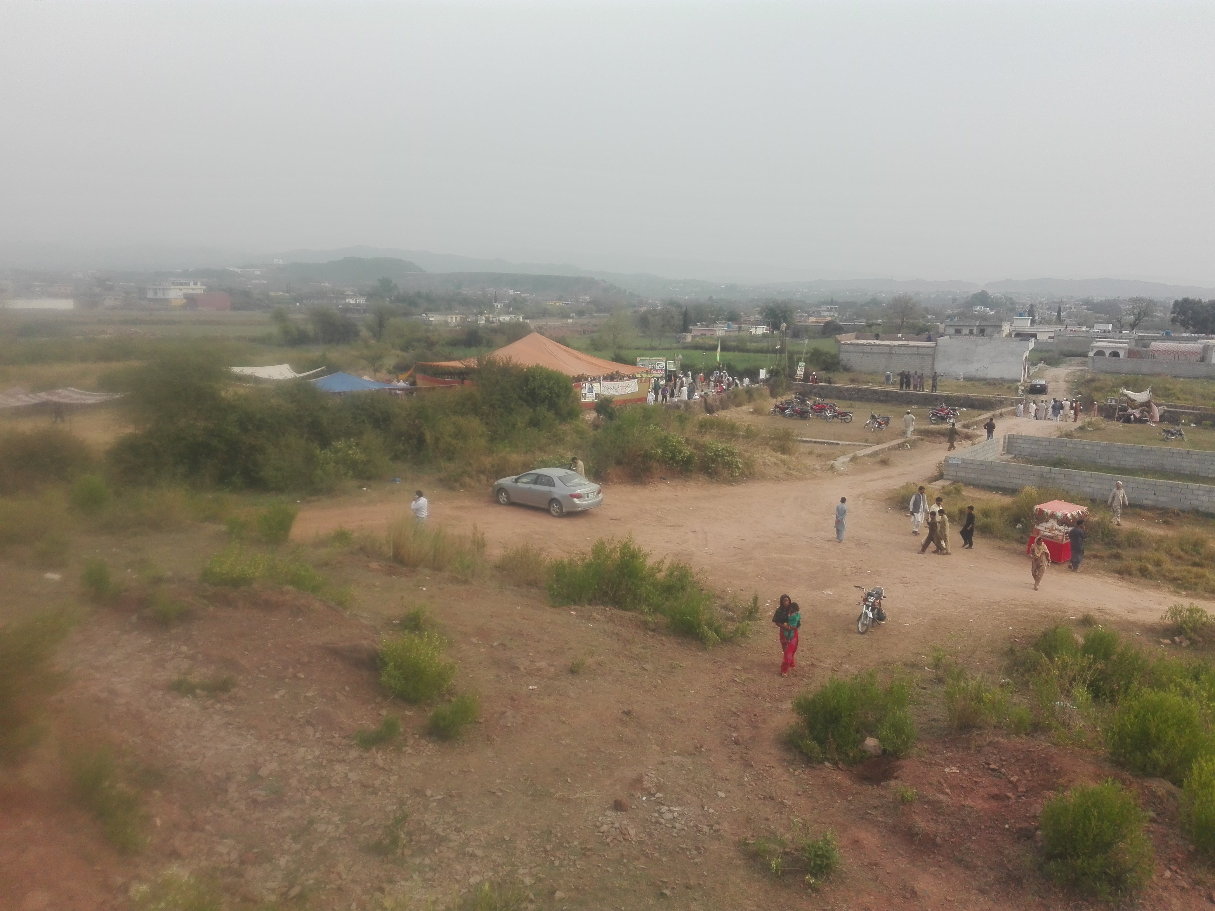 Mumtaz Qadri Tomb bahar kohممتاز حسین قادری مزار